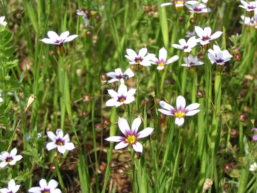 Photograph of Sisyrinchium atlanticum.